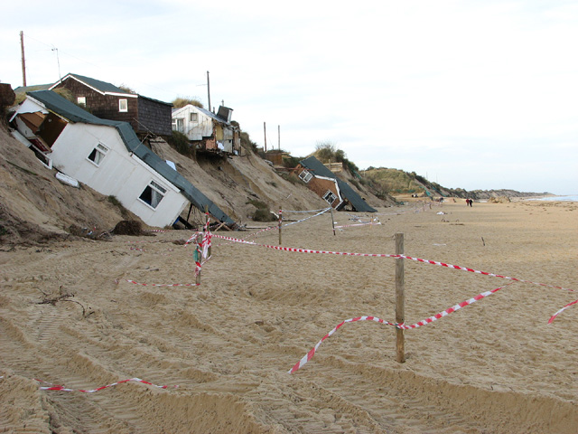 After storm surge December 2013